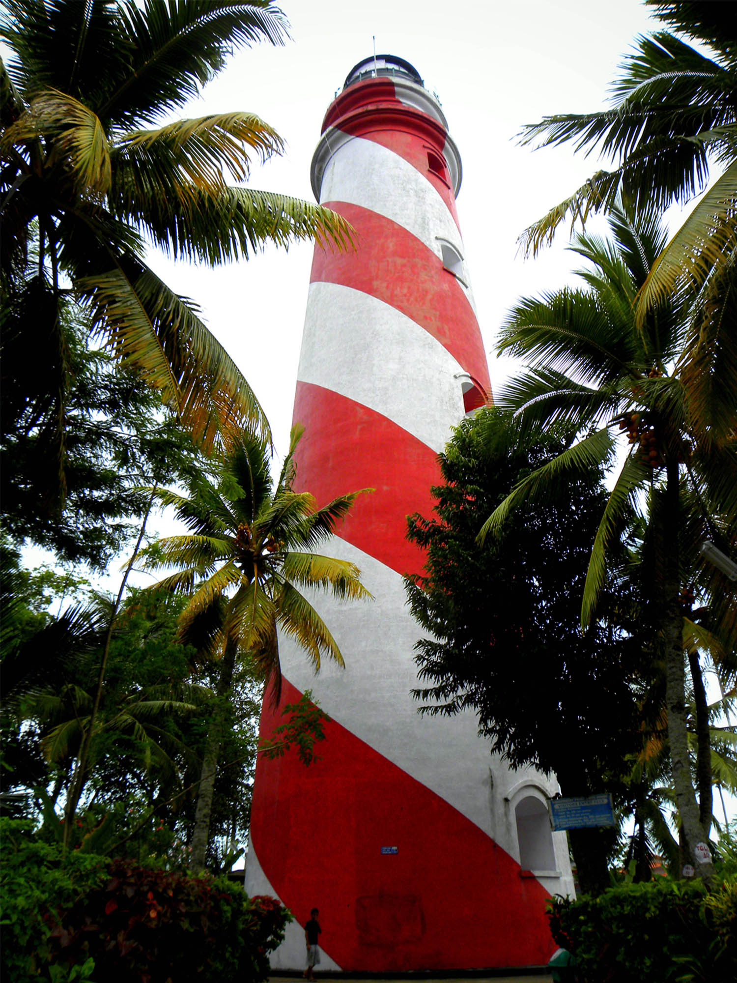 Thangassery Light House is one of the prominent tourist locations in the city of Kollam. The remnants of Thangassery Fort is very close to this light house.